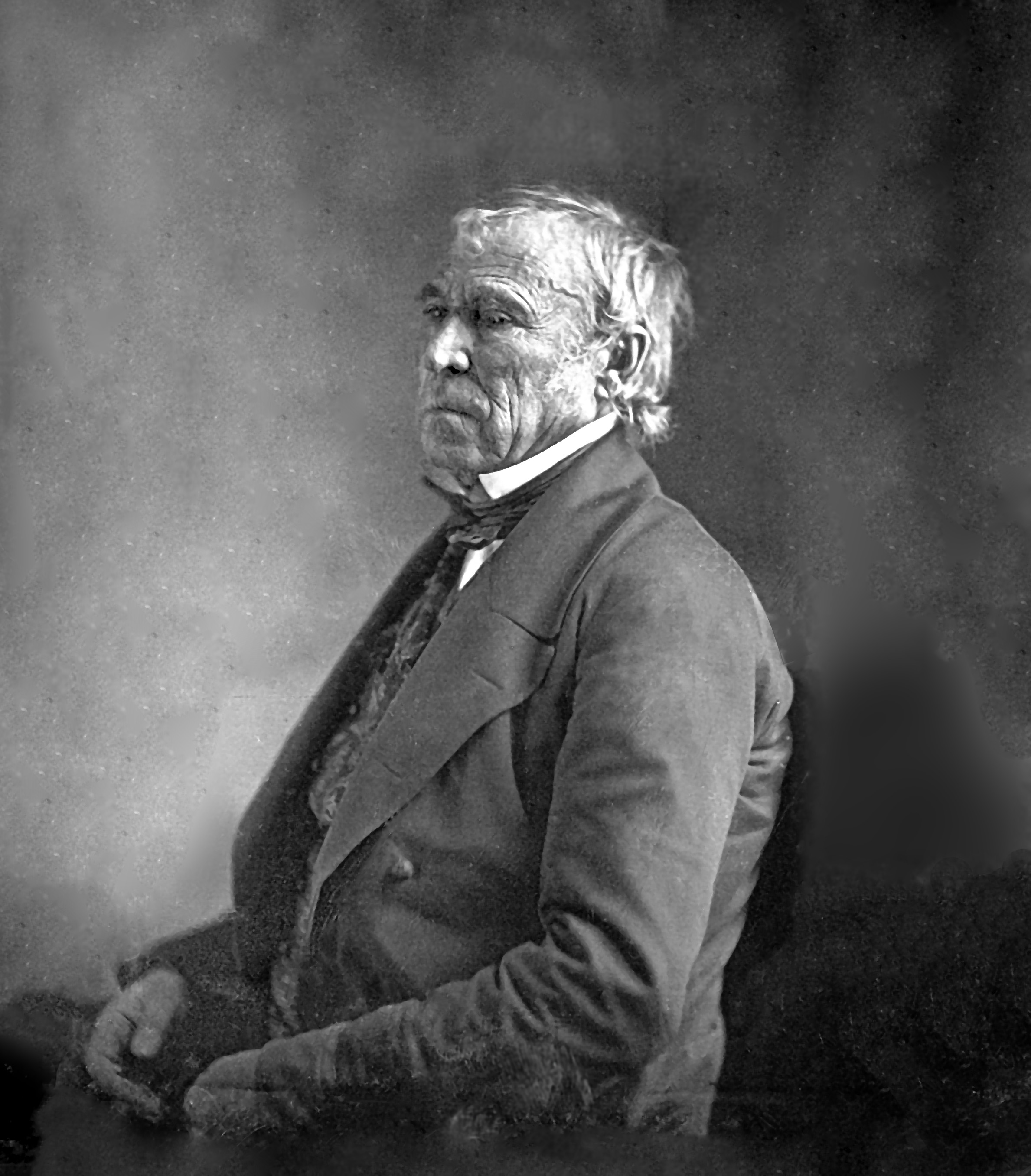 Daguerreotype of Gen. Zachary Taylor, taken at the White House, by photographer Mathew Brady, in March 1849. Courtesy of the Beinecke Rare Book & Manuscript Library, Yale University. [1]